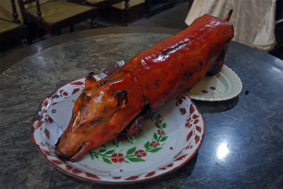 Whole Roasted Suckling Pig, Tiretta Bazar, Old Chinatown, Kolkata